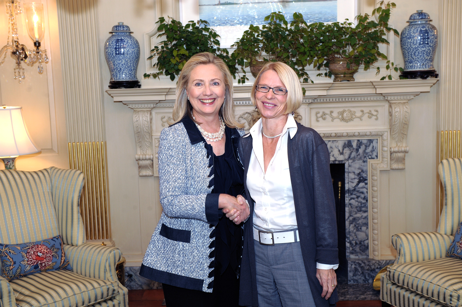 U.S. Secretary of State Hillary Rodham Clinton meets with Swiss Ambassador to Iran Livia Leu Agosti at the U.S. Department of State in Washington, D.C., on October 12, 2011. [State Department photo/ Public Domain]